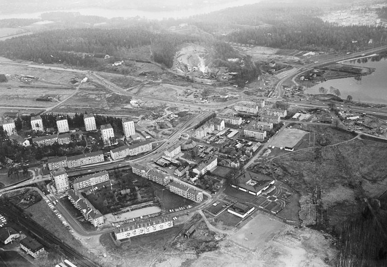 Interchange "Järva krog" under construction